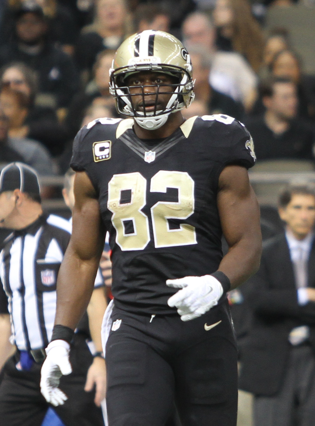 New Orleans Saints vs Carolina Panthers, December 6, 2015, Tammy Anthony Baker, Photographer